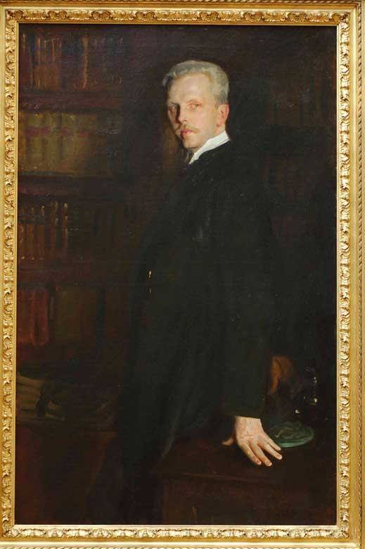 Edward Robinson 1903 Metropolitan Museum, New York Oil on canvas 143.5 x92.1 cm (56 1/2 x 36 1/4 in.) Gift of Mrs. Edward Robinson, 1931 31.60 Jpg: the Met / jasonj05